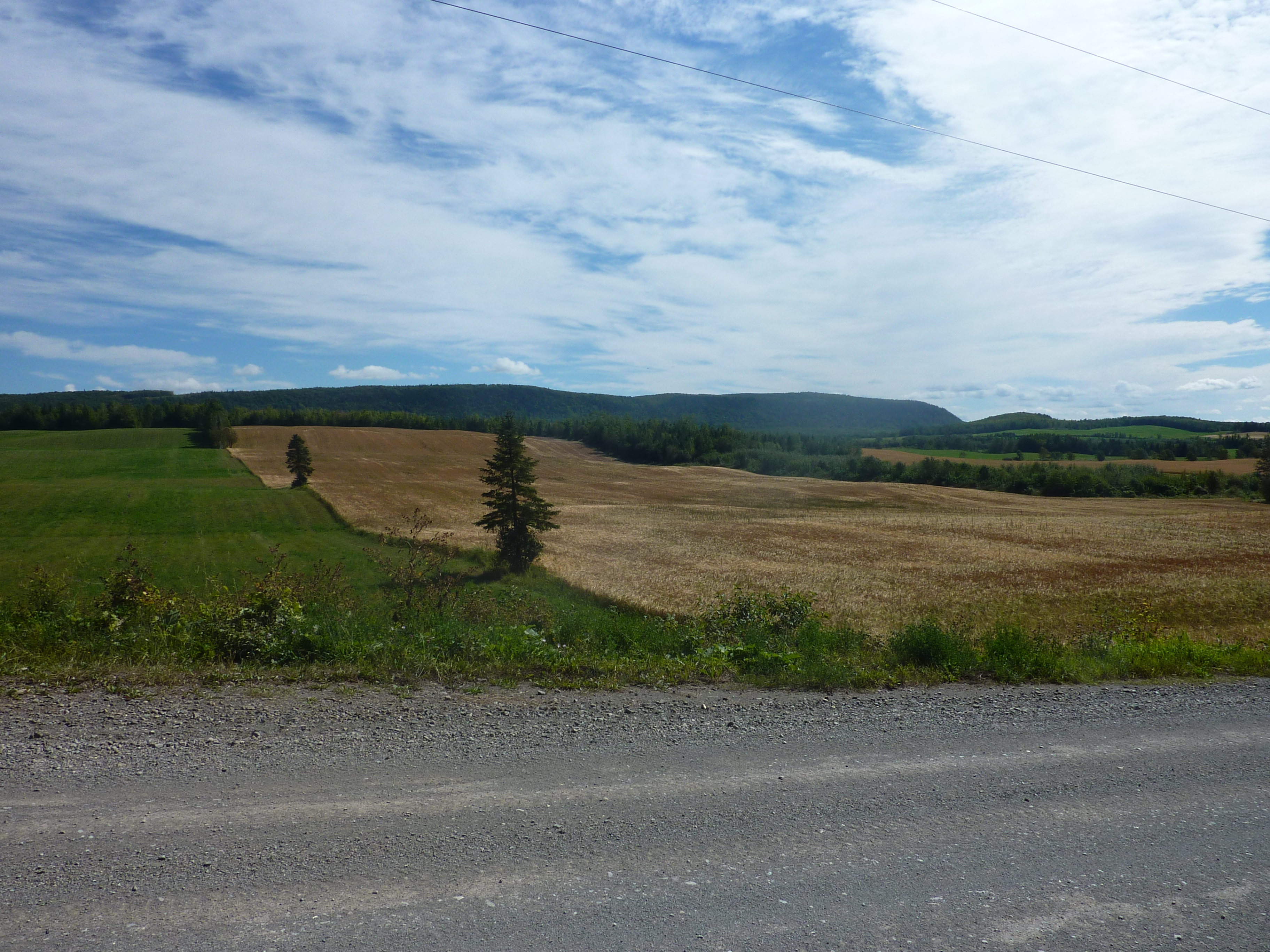 Fields at Saint-Damase, Qc in MLa Matapédia (RCM)